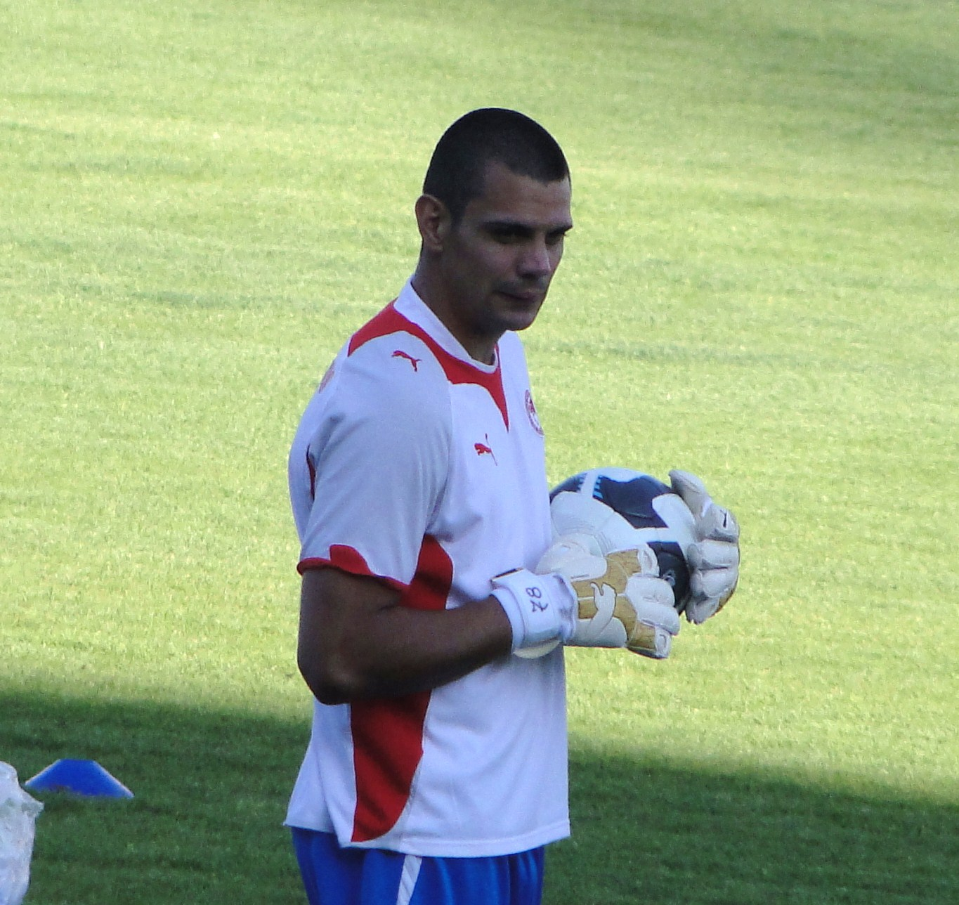 Urko Rafael Pardo playing for Olympiacos, 2010.